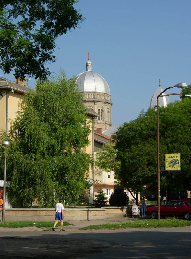 The Saint Anthony Padovanian Catholic Church in Čantavir.